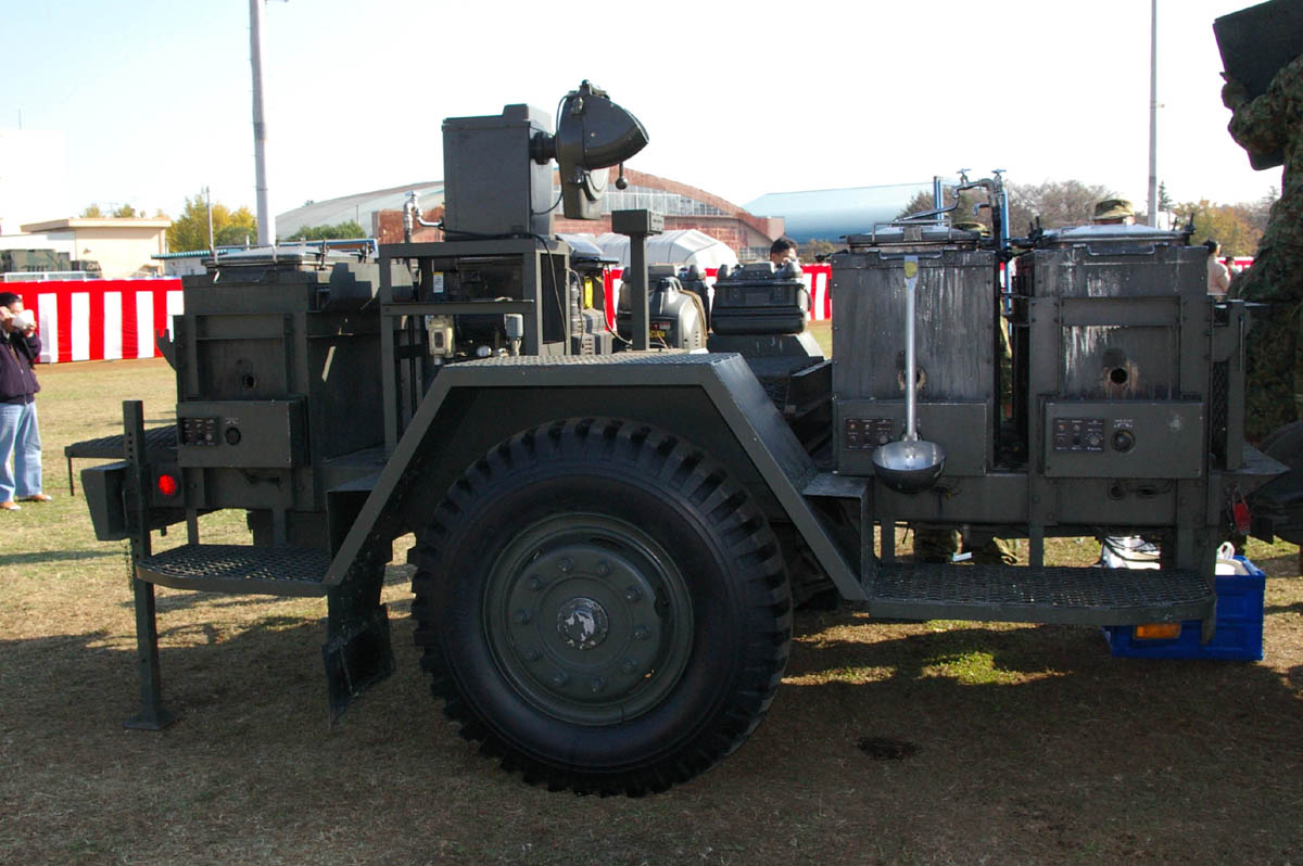 In Camp Matsudo,Japan.